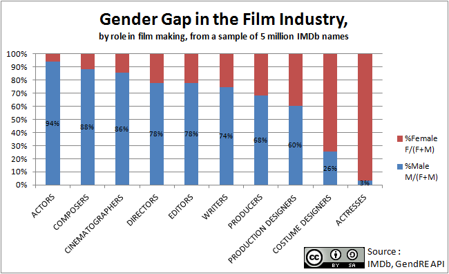 Analysis of the Genger Gap in the Film Industry (Source: IMDB)